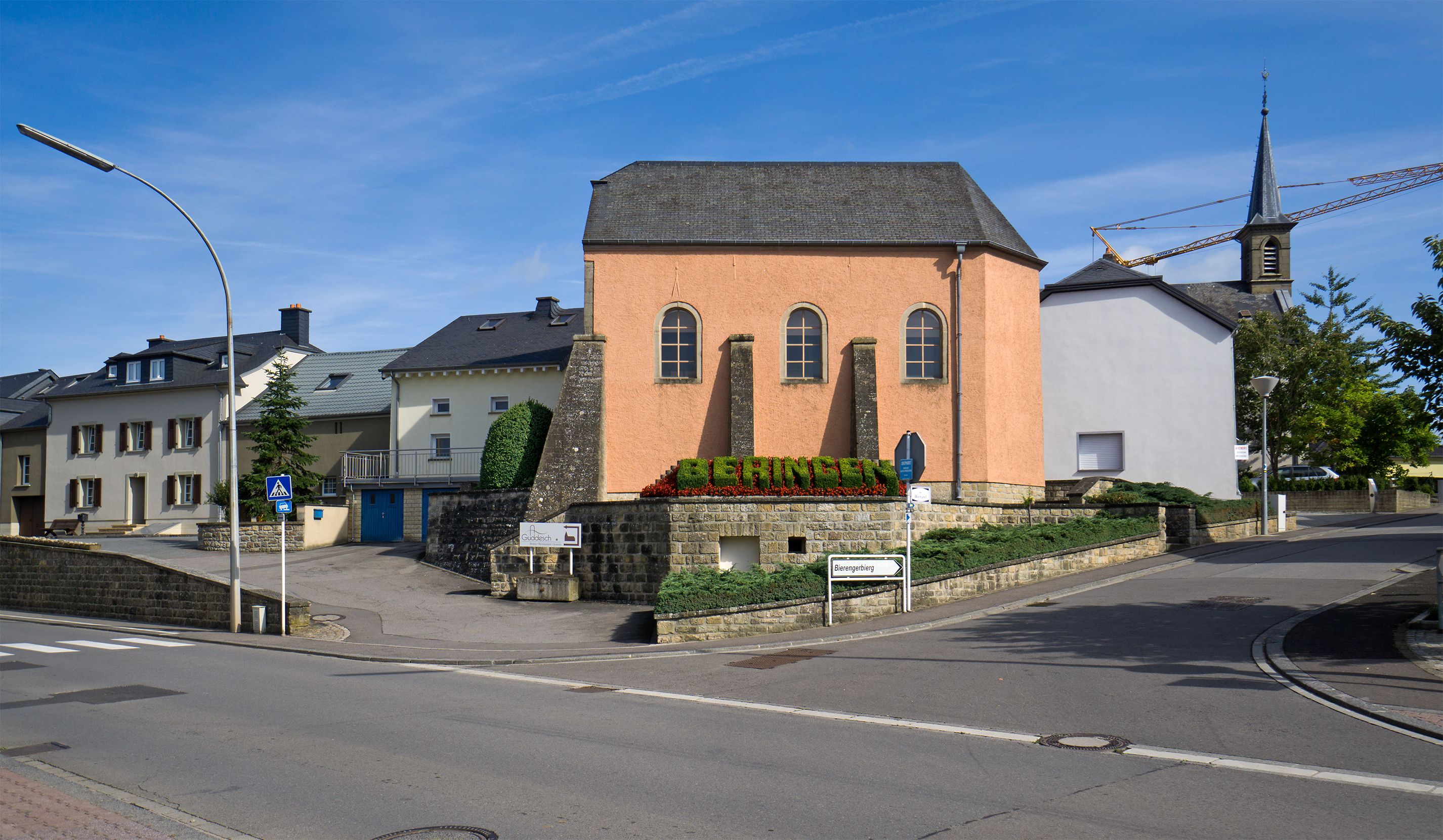 Centre of Beringen